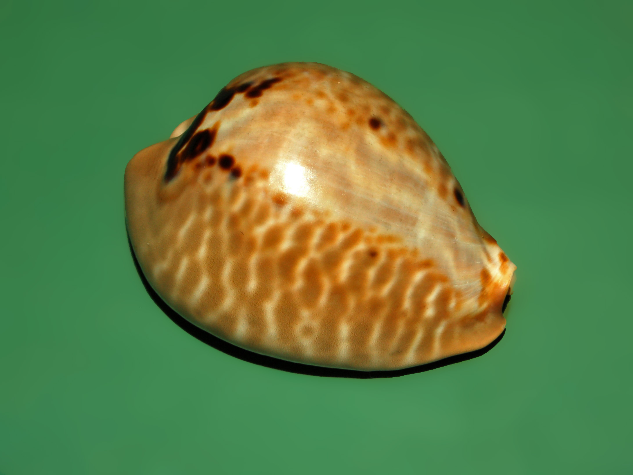 Muracypraea mus - Venezuela, Amway Bay